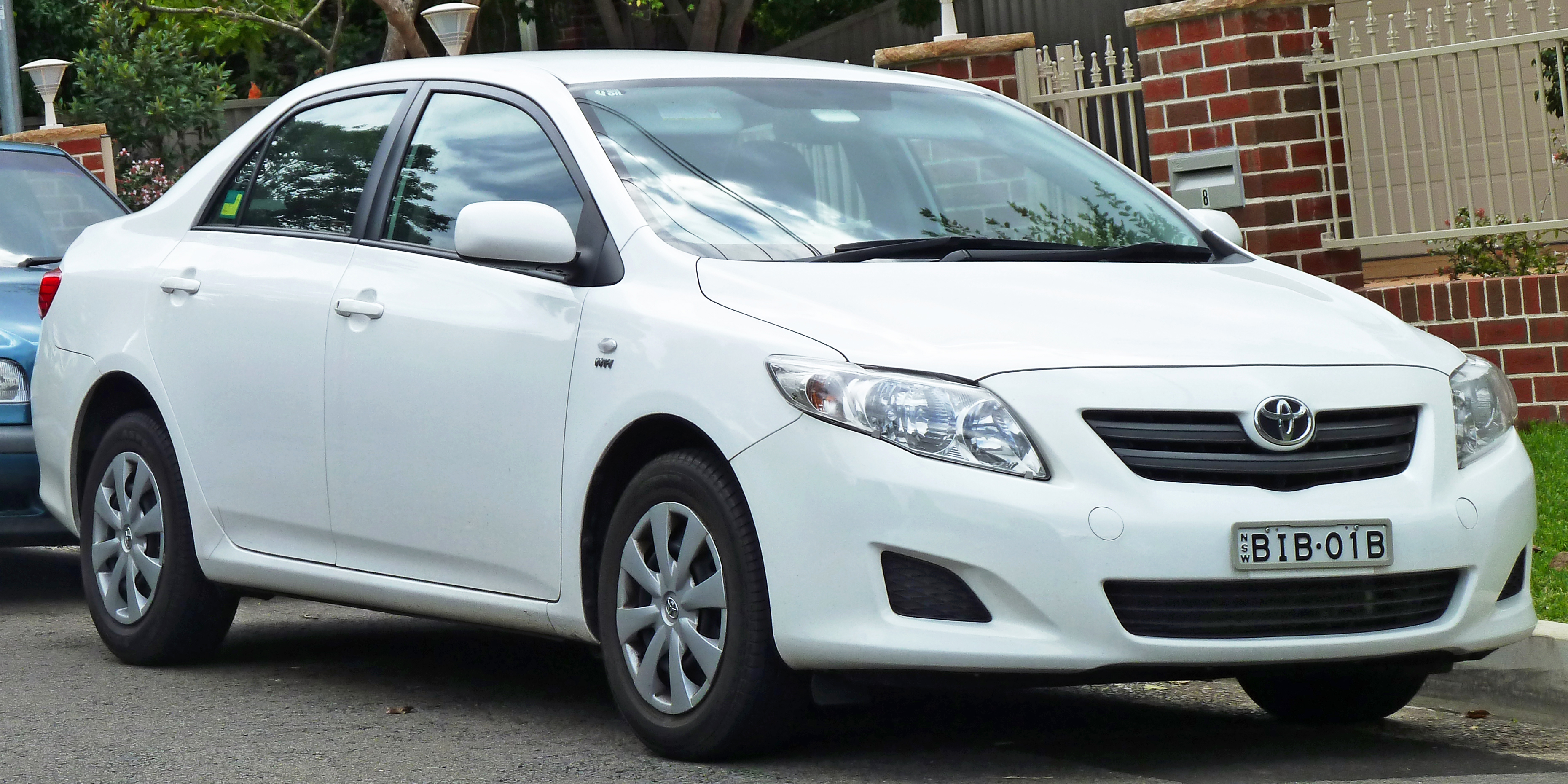 2007–2010 Toyota Corolla (ZRE152R) Ascent sedan. Photographed in Killara, New South Wales, Australia.